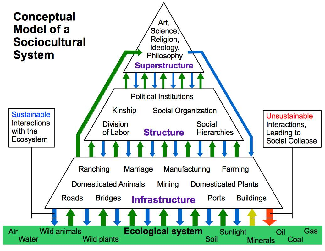 Sociocultural system diagram